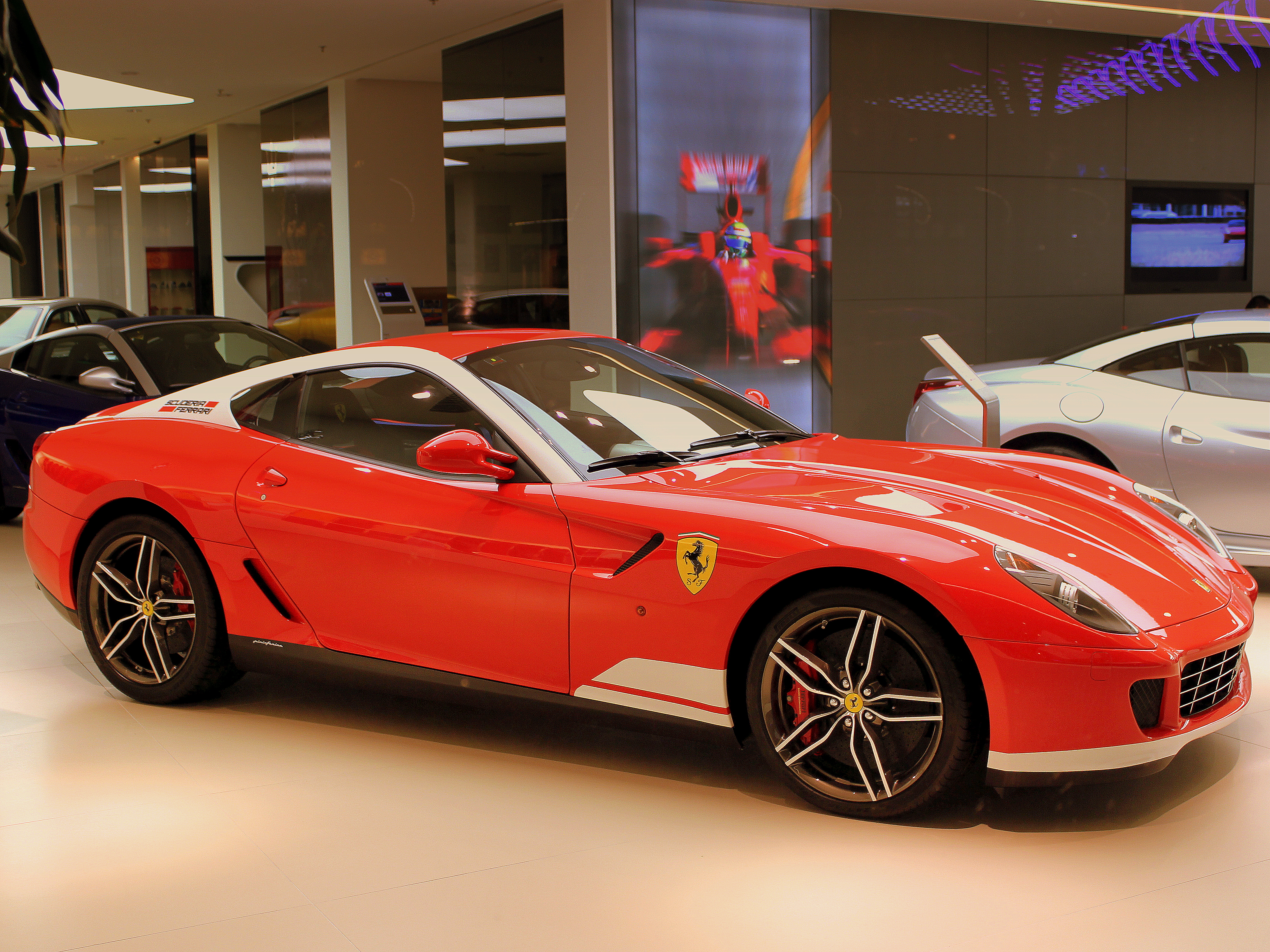 FERRARI DEALER NEAR THE PARK PLAZA HOTEL BEIJING CHINA OCT 2012